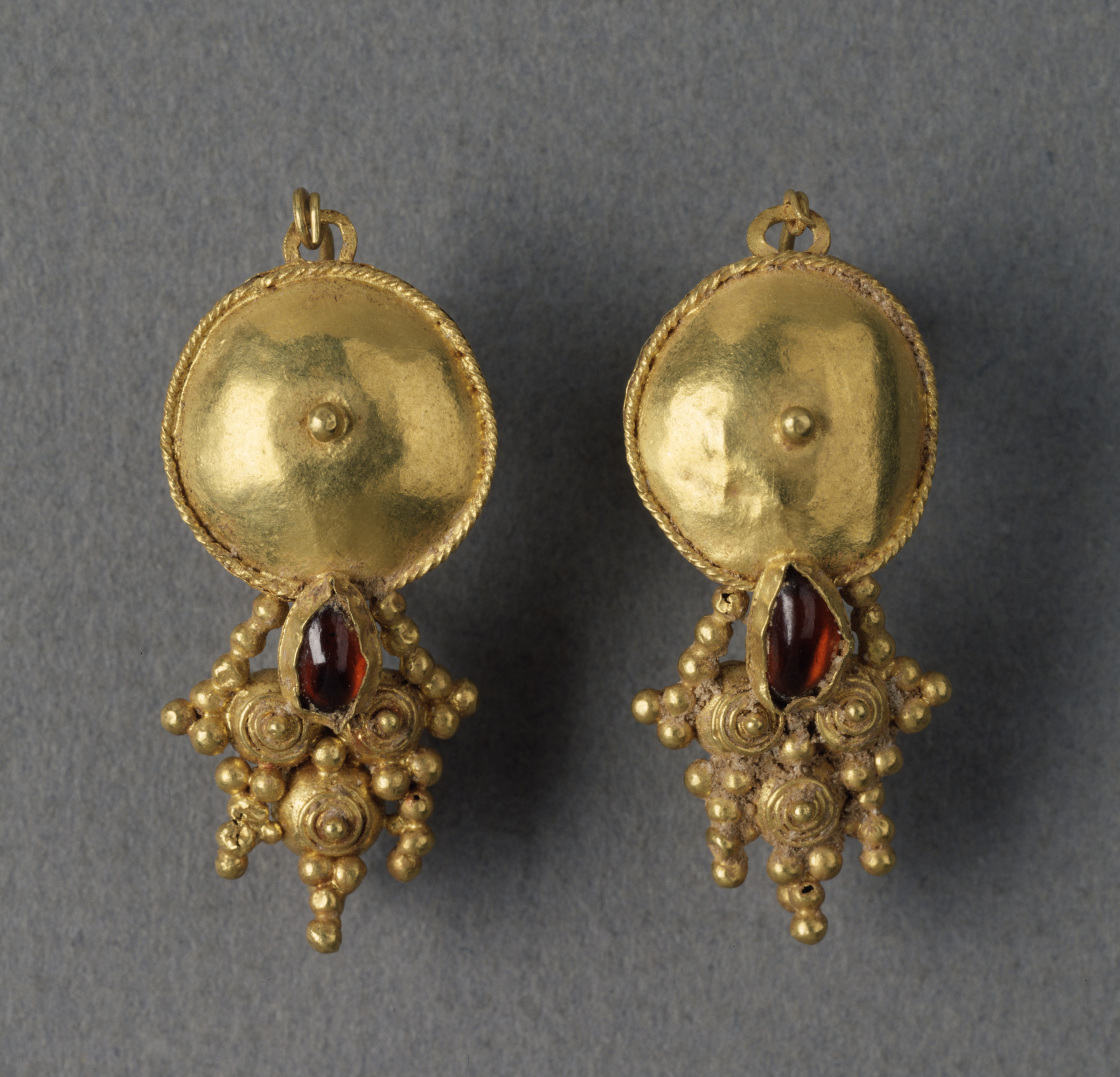 This pair of earrings is decorated with coarse filigree and granulation.